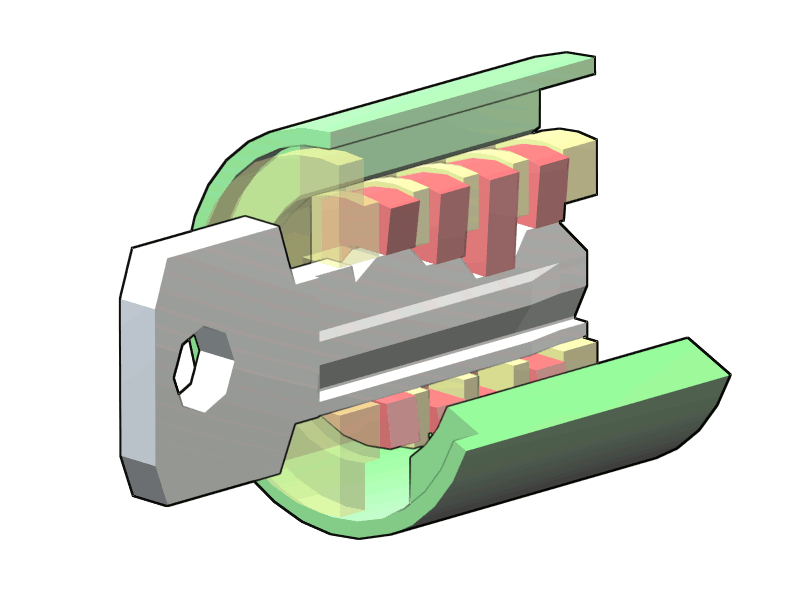 Illustration of the disc tumbler lock created by Wapcaplet in Blender and touched up in the GIMP. Category:Images created with Blender